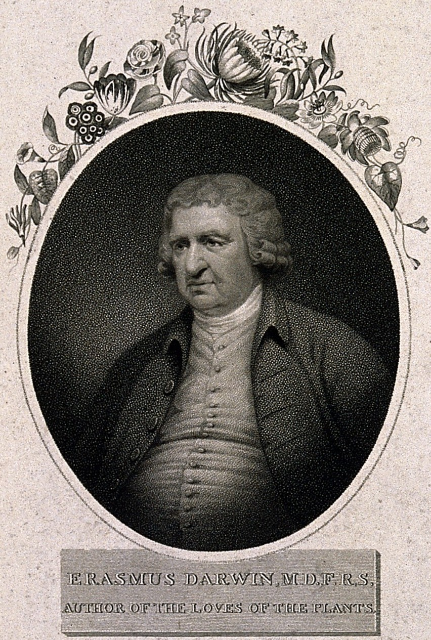 Erasmus Darwin. Stipple engraving by Holl, 1803, after J. Rawlinson. Iconographic Collections Keywords: portrait prints; stipple prints